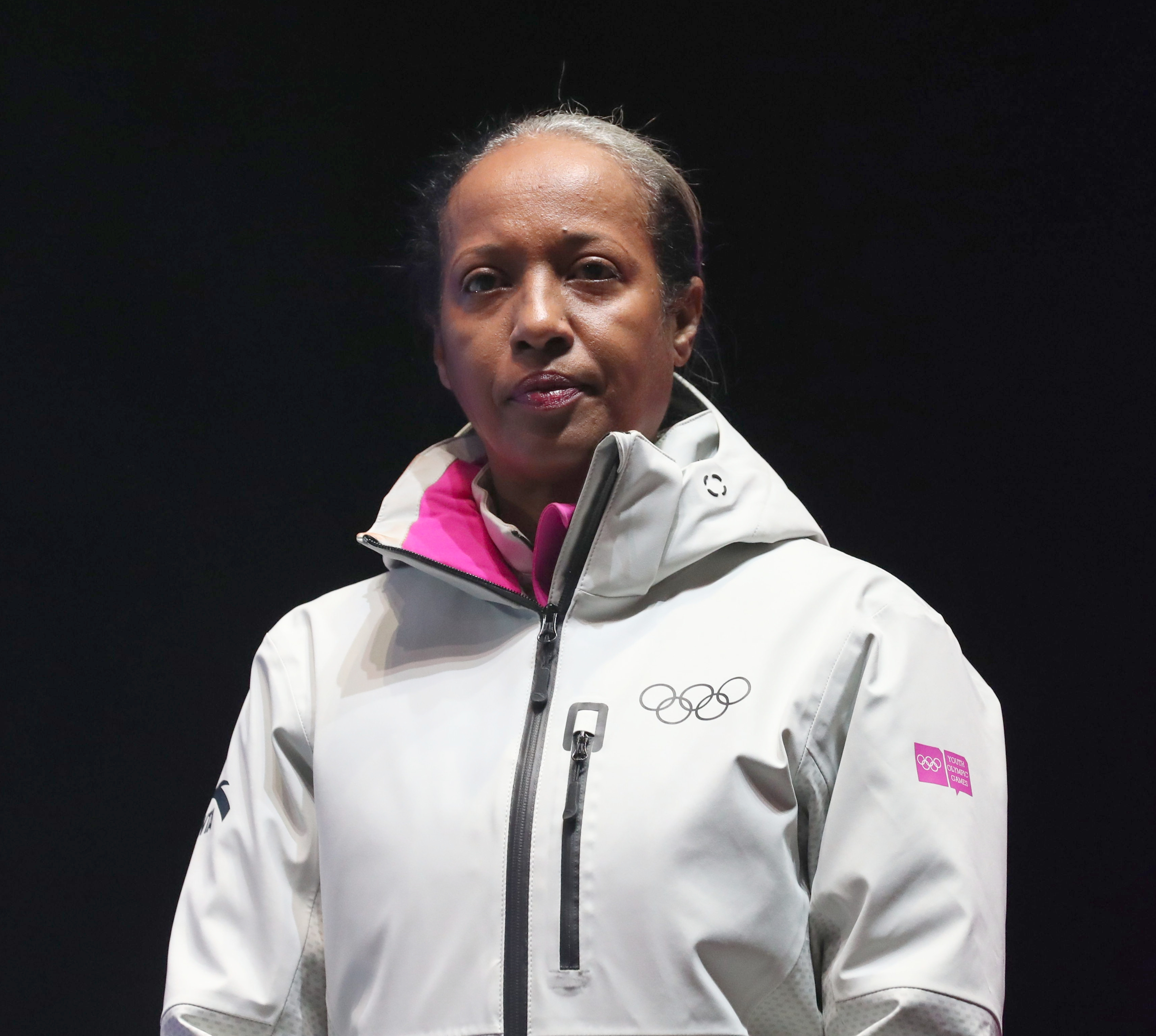 Medal Ceremony Day 6, 2020 Winter Youth Olympics in Lausanne